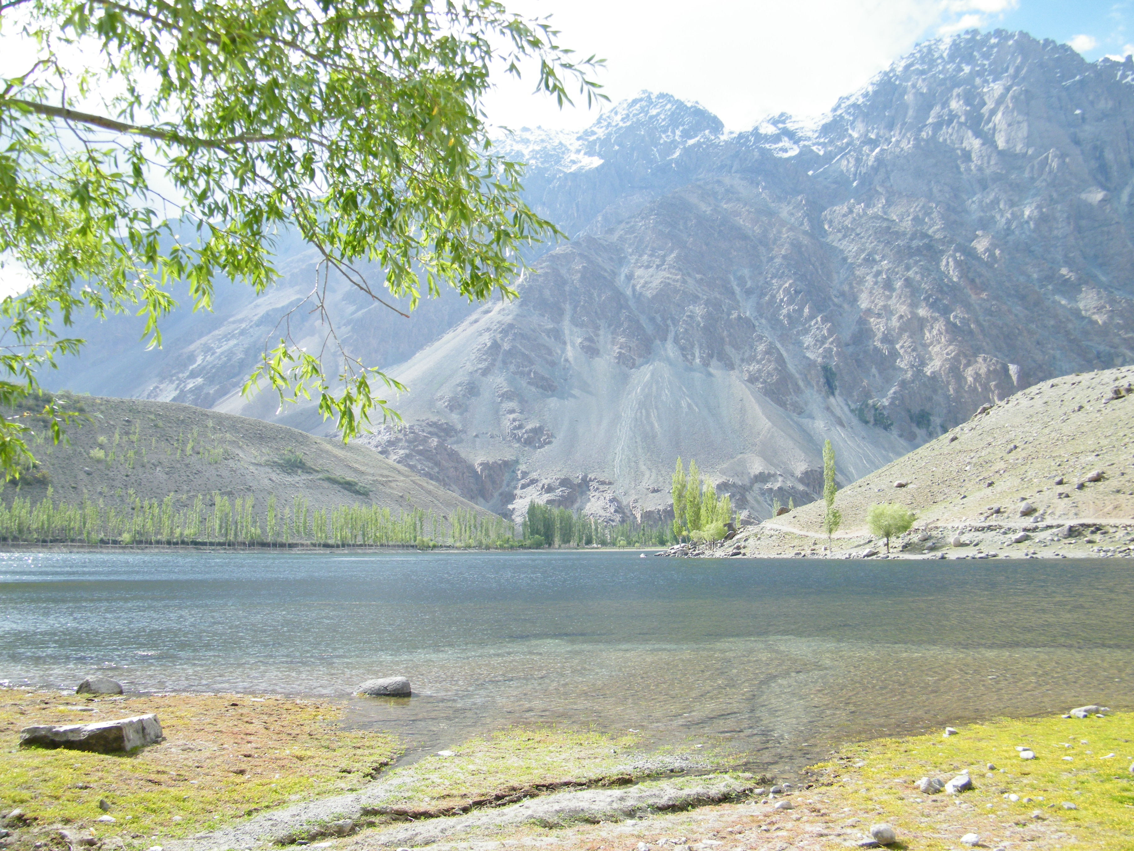 Phunder Lake in the Upper Ghizer.